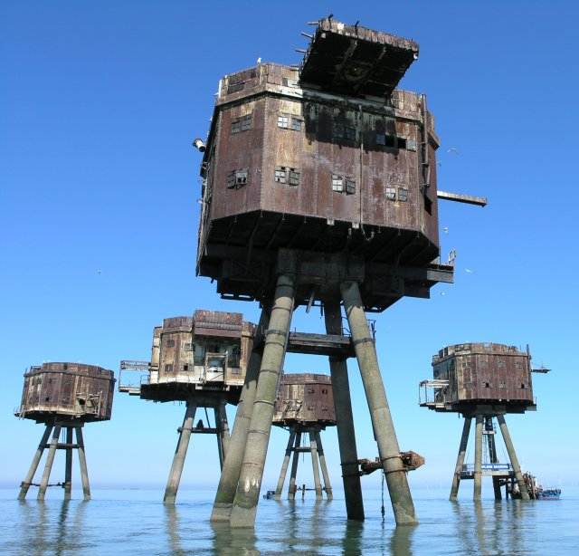 Red Sands Maunsell Towers. Five of Red Sands Fort's 7 towers. They appear as tiny blocks on the horizon from the shore but close up they exude an eerie, almost ominous presence. The tower in the foreground would have been a gun tower, with a gun placed on the flat section that protrudes from the front. Other towers would have different functions such as search lights and accommodation. Hundreds of soldiers would live on these towers in six week placements which were very unpopular due to the remoteness of the placement.